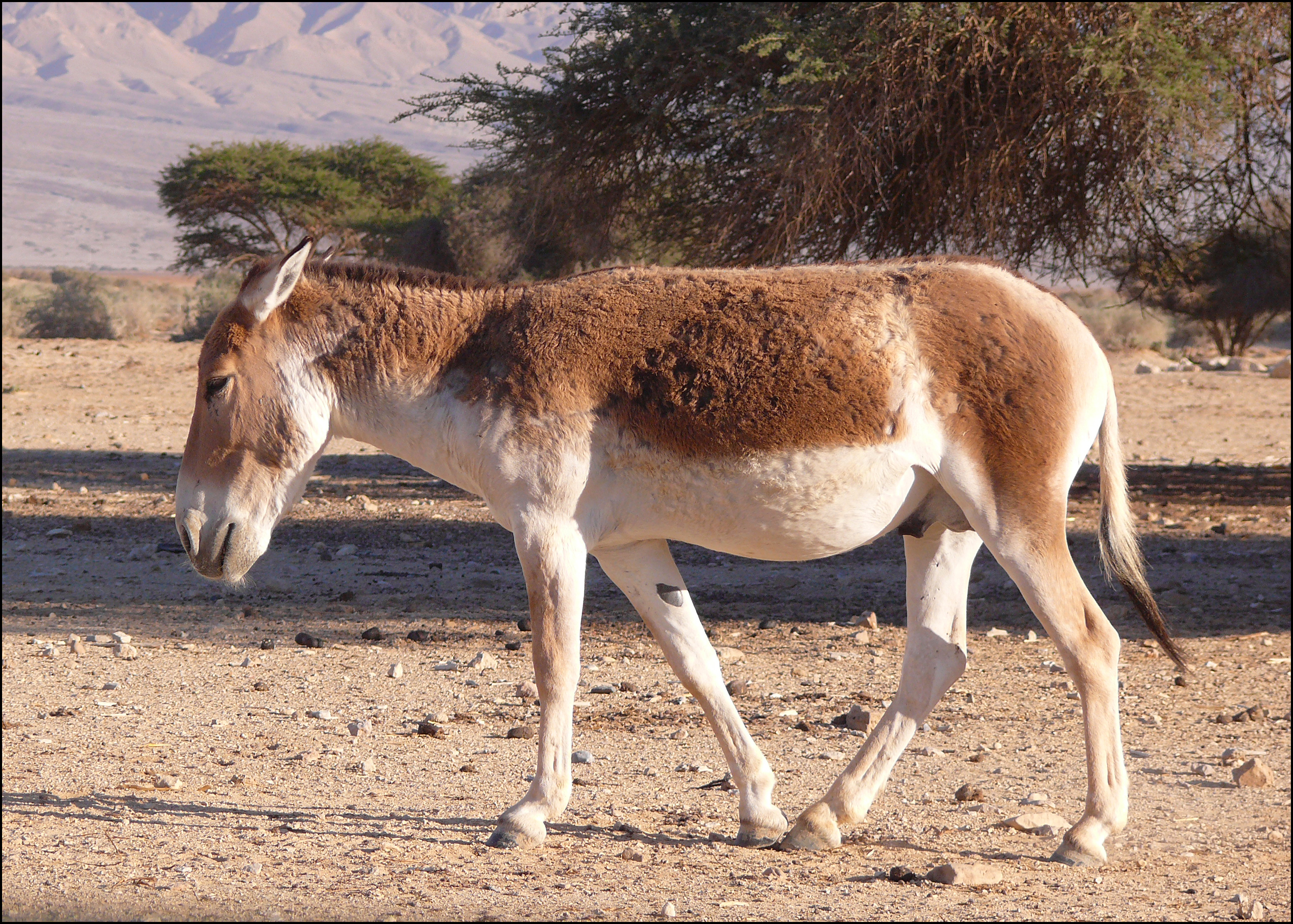 Wild Ass, Hai-Bar Yotvata, Israel